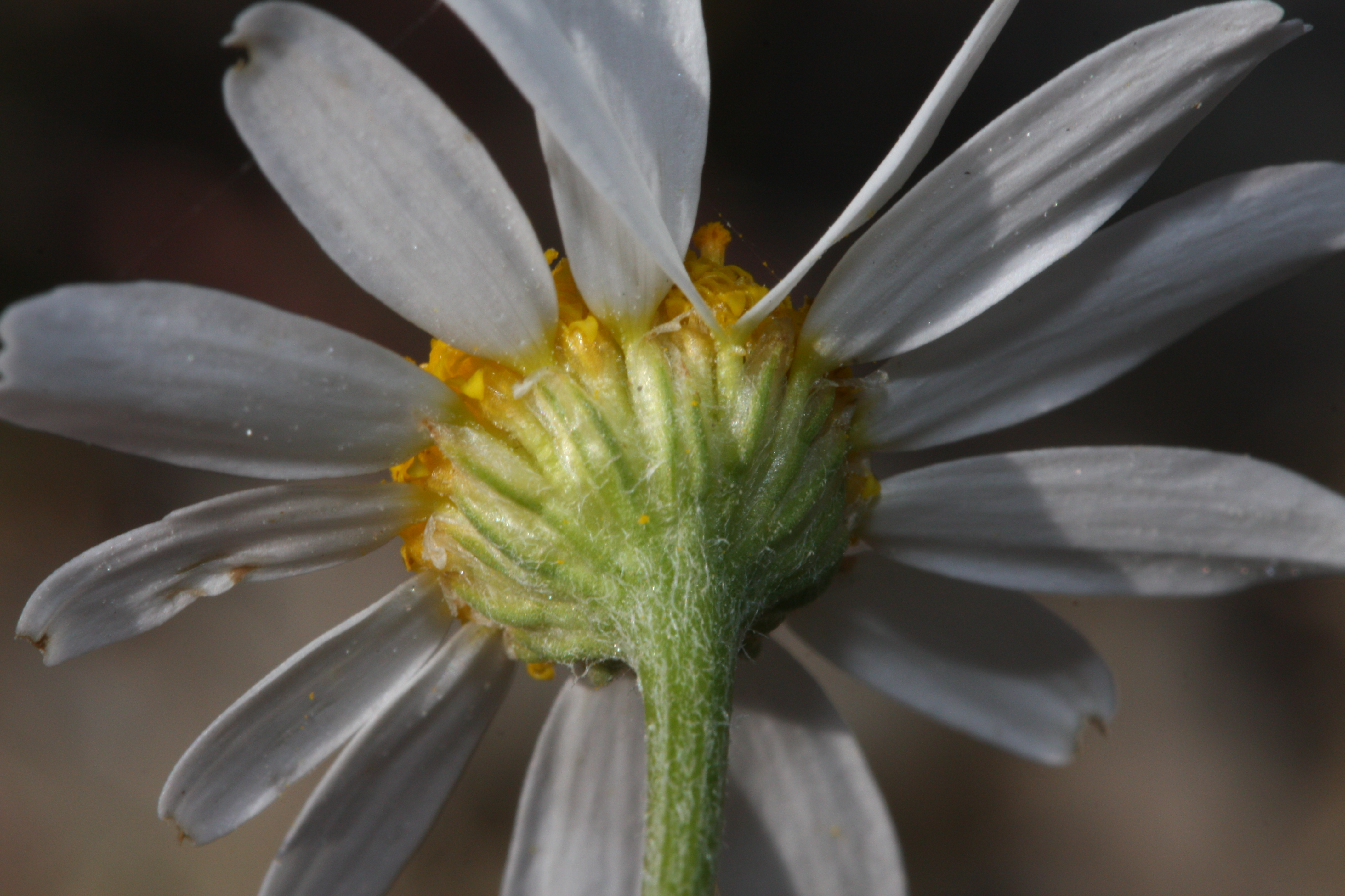 Corn Chamomile, Field Chamomile